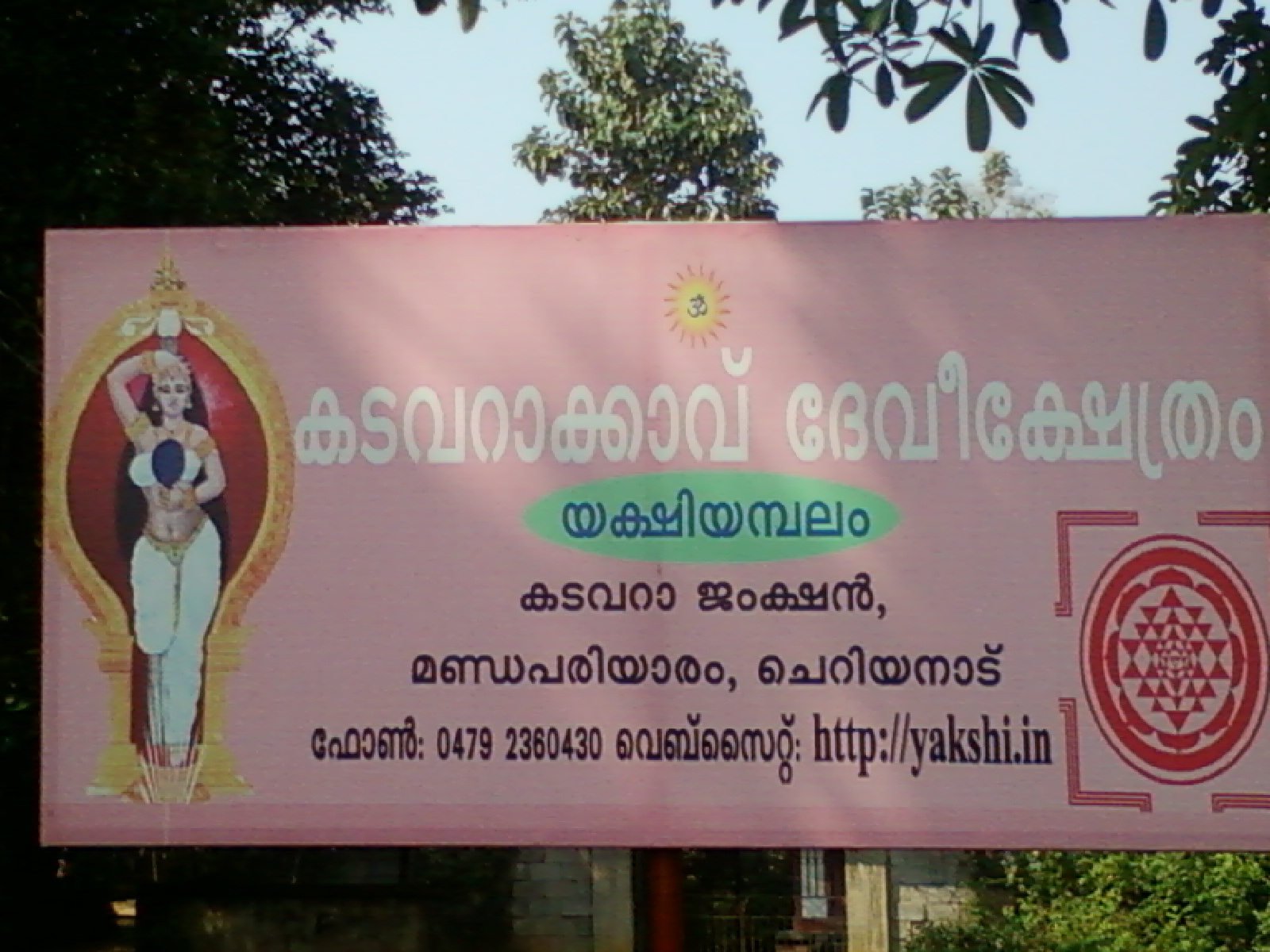 Kadavarakkavu Temple Banner